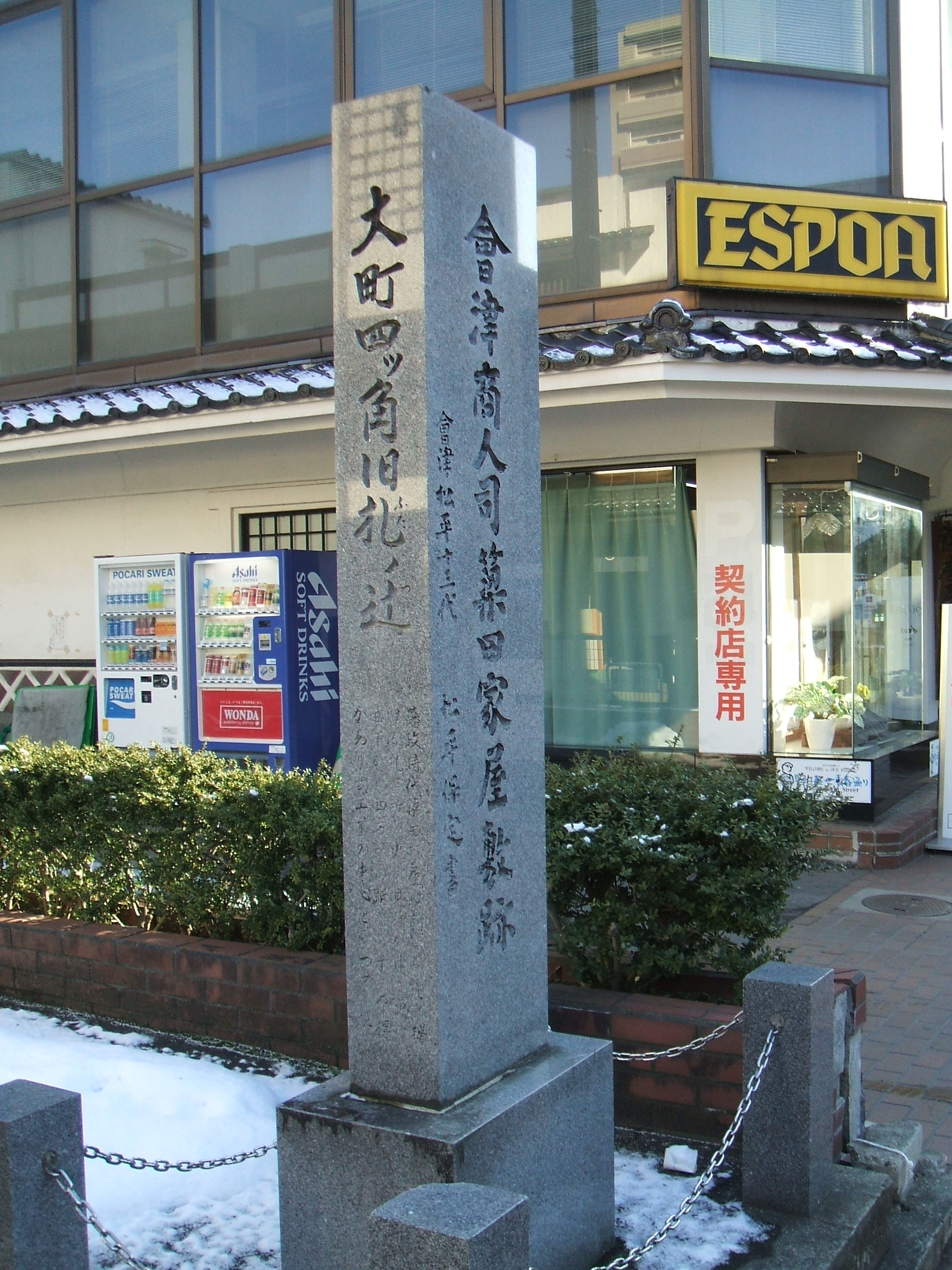 This is a monument of Omachi-Hudano-Tsuji. It was taken at Omachi, Aizuwakamatsu, Fukushima.